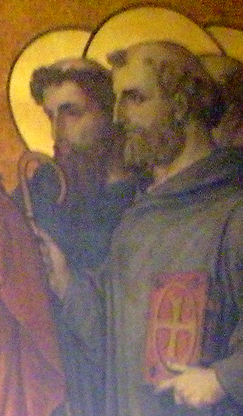 Crop from a fresco by Alphonse Le Henaff, painted in the Cathédrale Saint-Pierre de Rennes between 1871 and 1876, centered on Robert of Arbrissel, french preacher of the 11th-12th century.